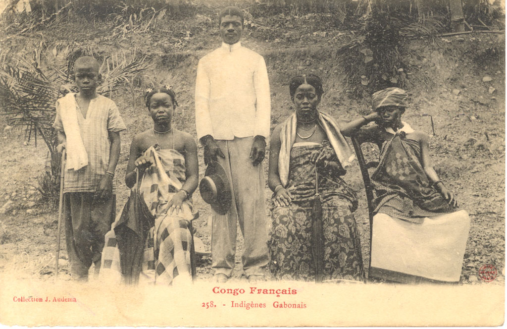 Congo Français [postcard] : Congo Français - Indigènes Gabonais Contained in: Postcard Collection, 1898-[ongoing] Phy. Description: postcard : b&w ; 9 x 14 cm. Produced: [ca. 1905] Summary: Translated caption reads: French Congo. Natives from Gabon. Man, holding a straw hat, standing in the group. Sitted women on his both sides, holding umbrellas. Young boy on the far left holding a stick. Congo Français. Photograph by J. Audema General Note: Title source: Postcard caption. Image indexed by negative number. Culture: Portraits Subject - Geographical: Congo (Brazzaville) Repository Loc: Smithsonian Institution, National Museum of African Art, Eliot Elisofon Photographic Archives, 950 Independence Avenue, S.W., Washington, DC 20560-0708 Local Number: EEPA 1985-140034